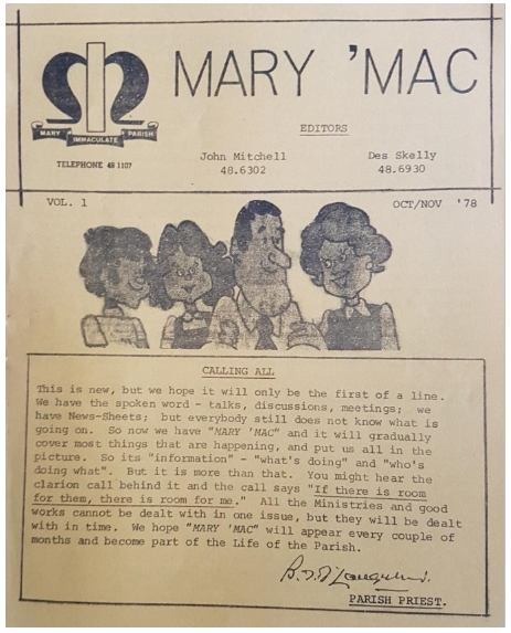 Front page of the first edition in 1978